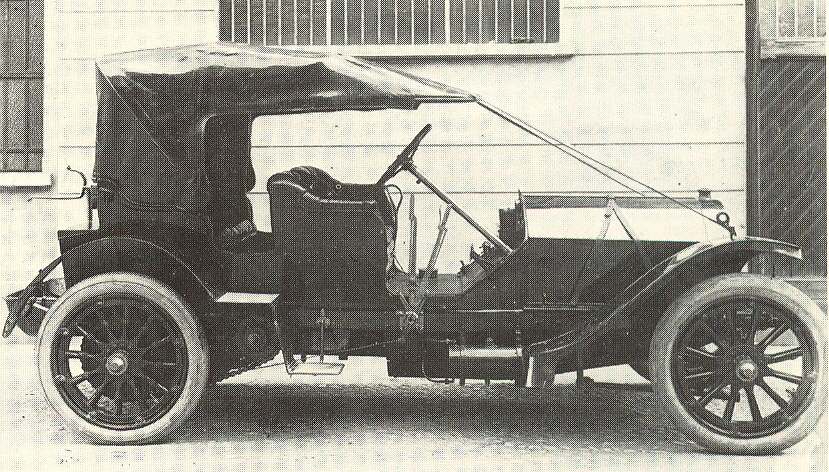 Fiat 60 hp (1905).